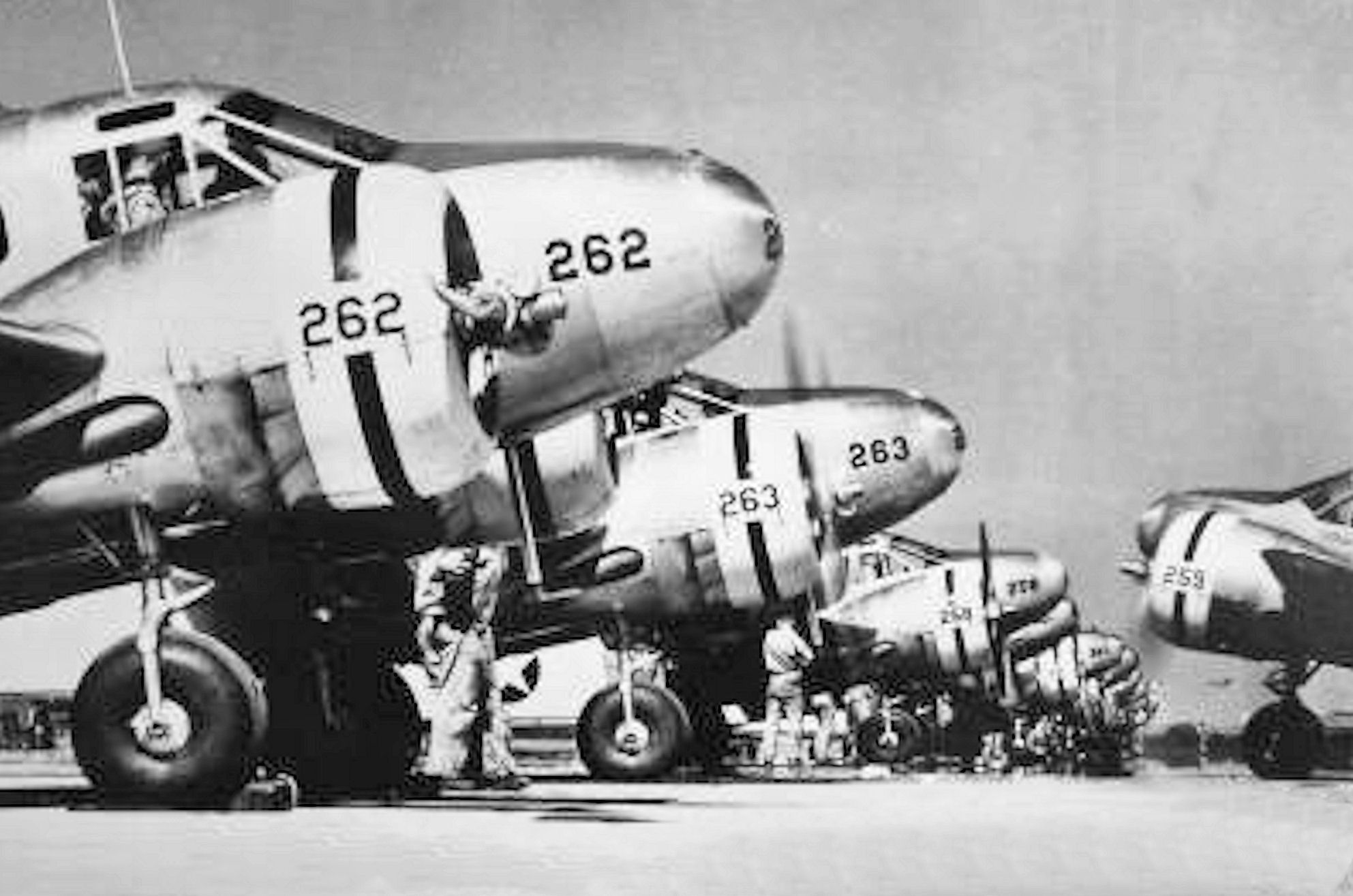 Hondo Army Airfield Beechcraft AT-7 Navigators - 1944